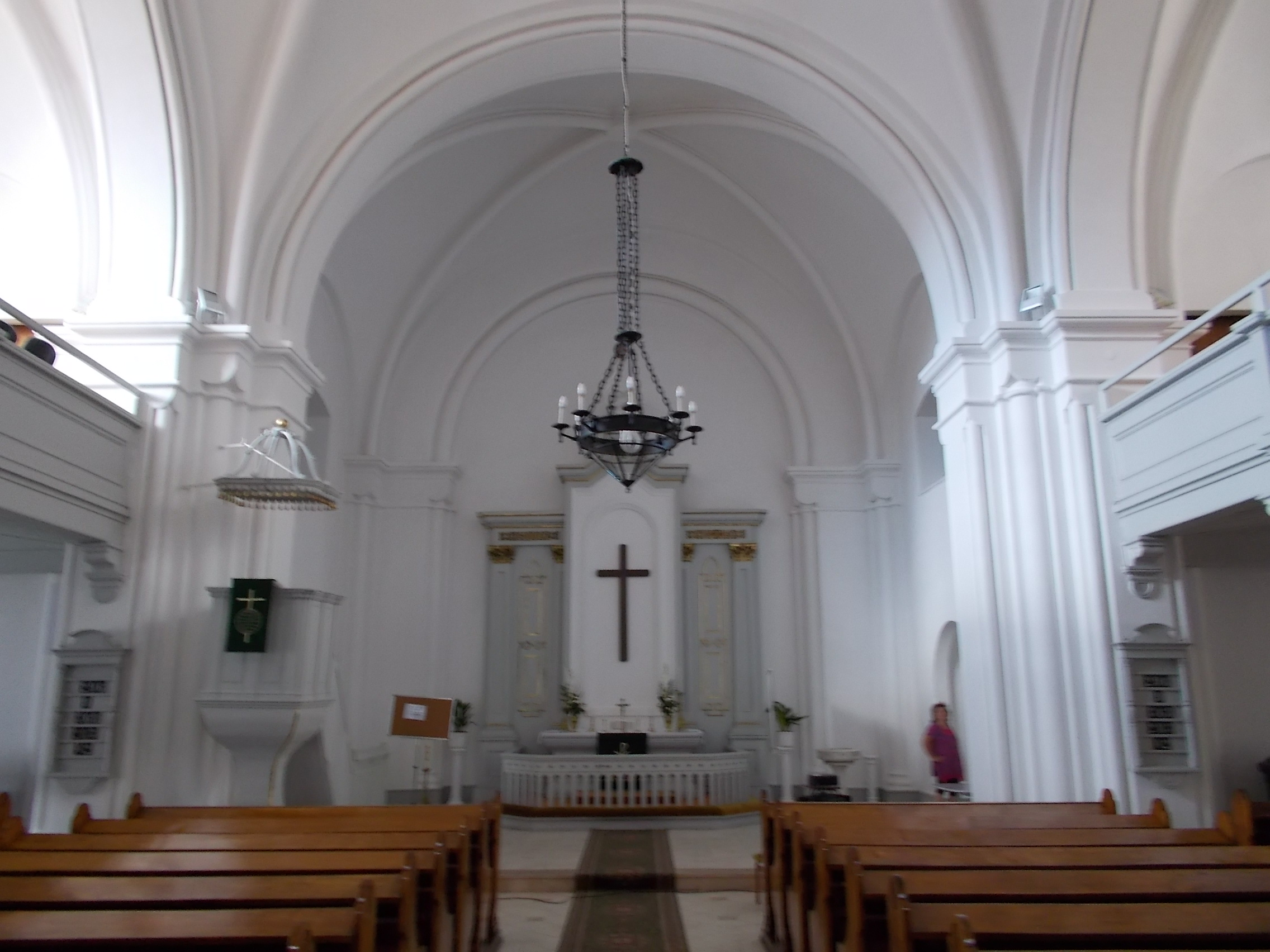 Lutheran church. - Arany János St., Kecskemét, Bács-Kiskun County, Hungary.